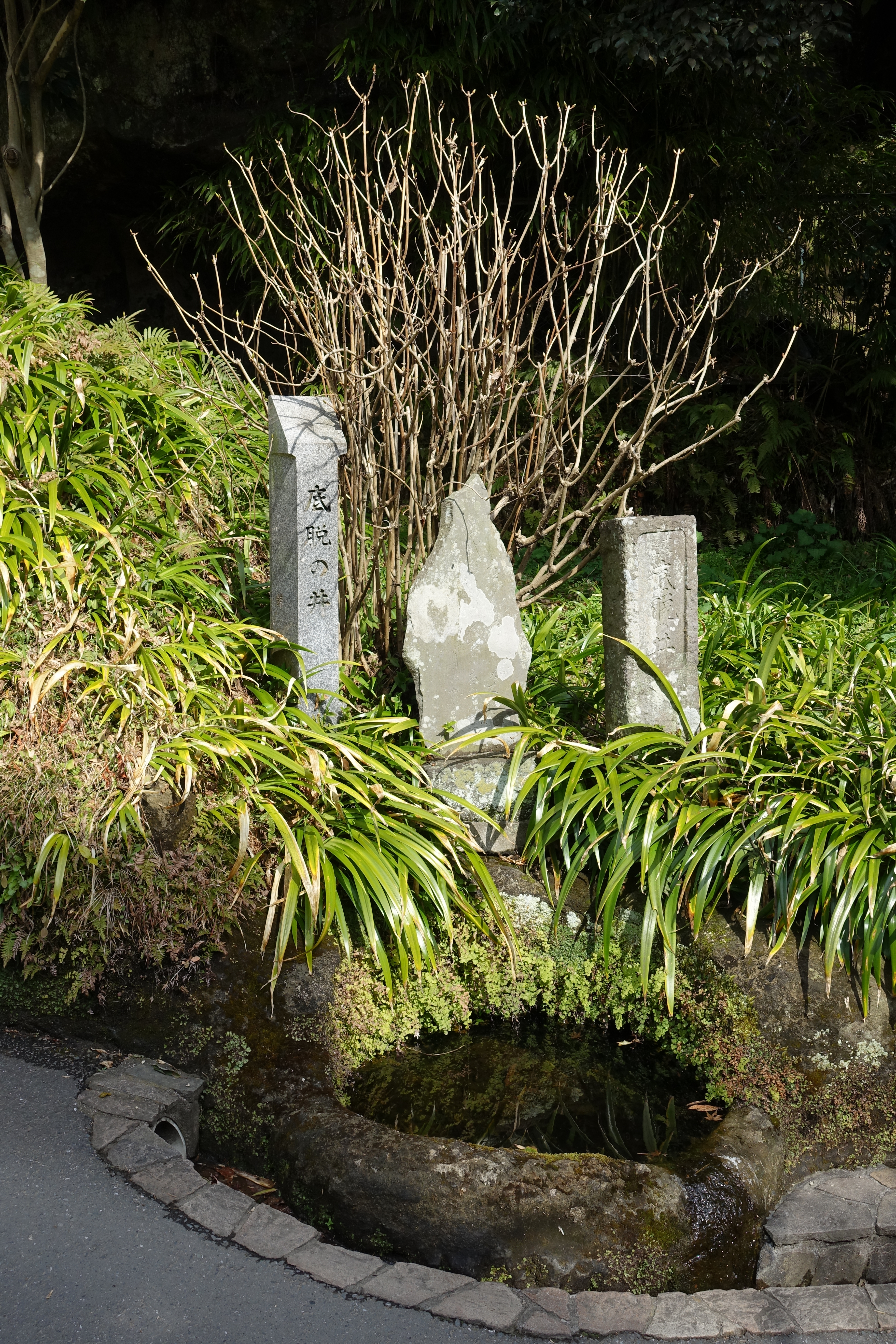 The water well called 'Sokonuke-no-I' at Kaizō-ji Temple - Kamakura, Kanagawa, Japan.